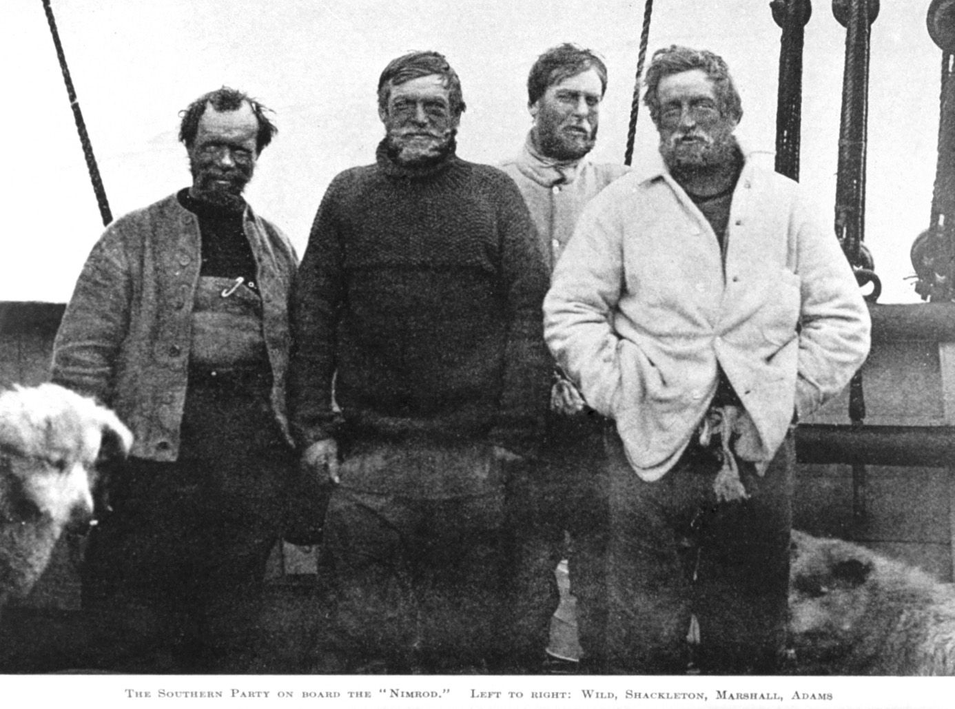 Nimrod Expedition South Pole Party (left to right): Wild, Shackleton, Marshall and Adams. The four members of the party that set out to attempt to become the first to reach the South pole, they were defeated by the weather, but also a lack of supplies and suitable equipment just 97 miles from the South Pole, a point they reached on January the 9th 1909. Ernest Shackleton (1874-1922) British Imperial Antarctic Expedition "Nimrod - Expedition", 1907 -1909